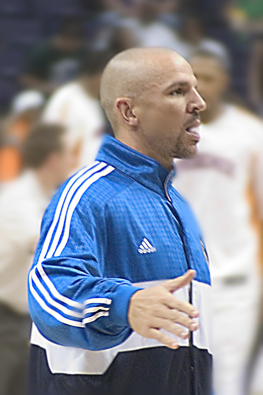 Jason Kidd